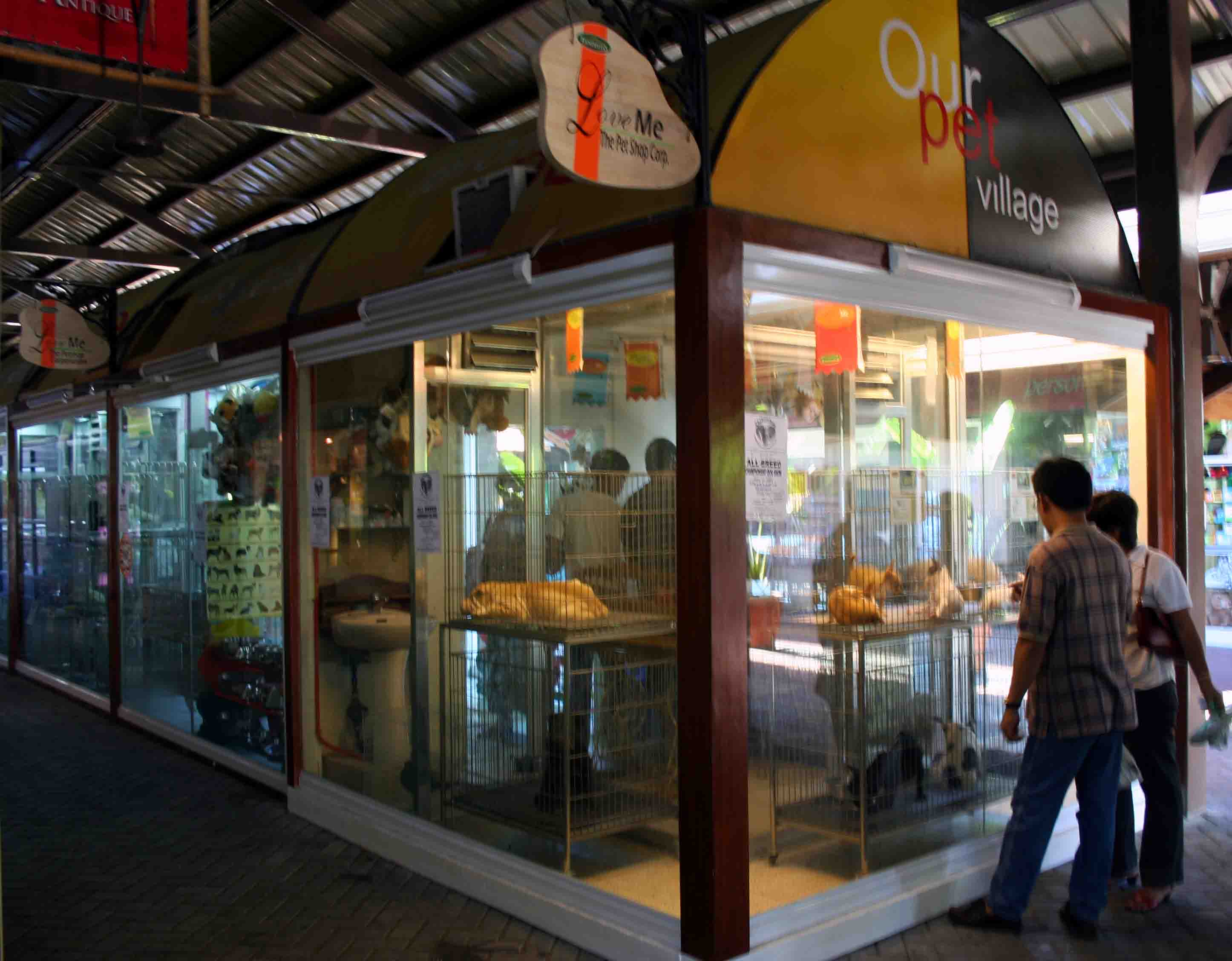 Picture of Pet Village in Tiendesitas